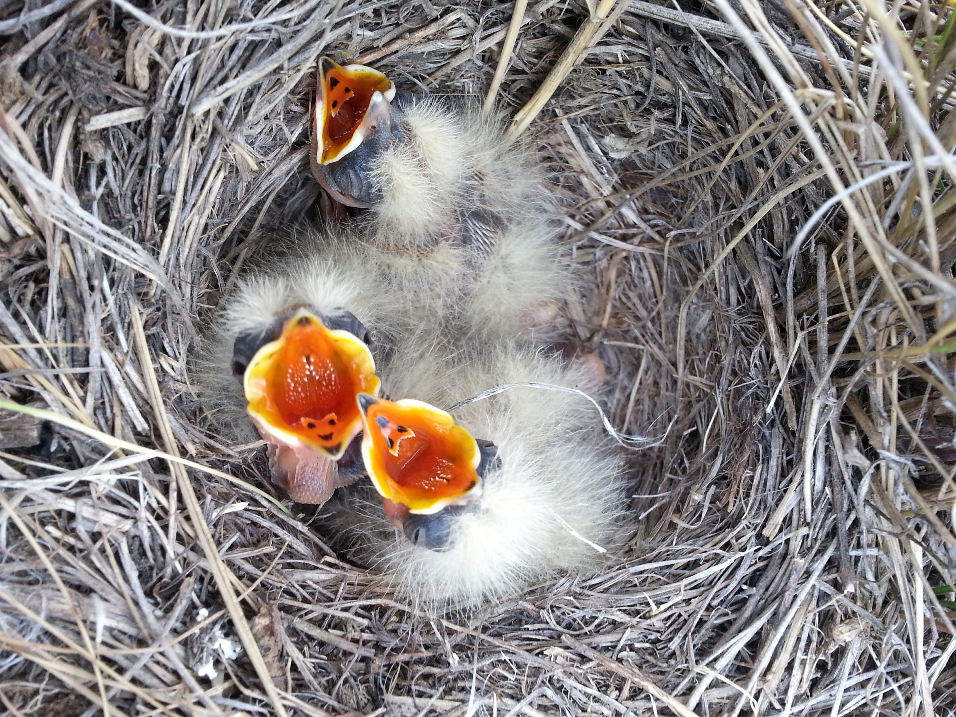 Horned Lark, Eremophila alpestris, nestlings begging, baby birds in nest, with distinct gape coloration and patterns. Horned Larks nest in open nests on the ground. NOTE: This nest was photographed as part of a nest monitoring project in the oil fields of Alberta, Canada by a professional trained in viewing sensitive nests and minimizing the disturbance to the birds and the surrounding vegetation. Photographing nests simply to "snap a cute pic" can expose them to predators and disrupt the feeding and care of nestlings!